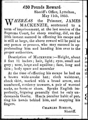 Reward poster for James Mckenzie, New Zealand outlaw. The Lyttelton Times published this notice in May 1855 offering a reward for the capture of James Mackenzie after he escaped from prison where he was being held for stealing sheep.